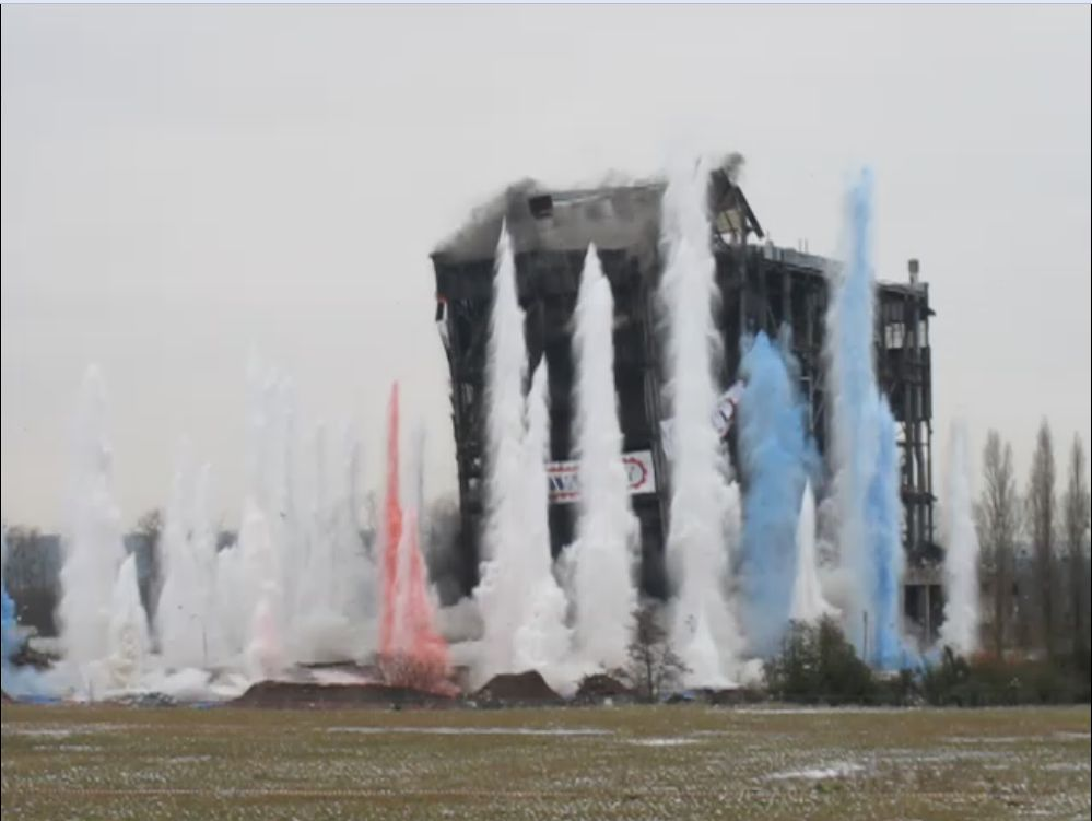 Demolition by blasting of the former coal power plant of Vaires-sur-Marne, Seine-et-Marne, France.